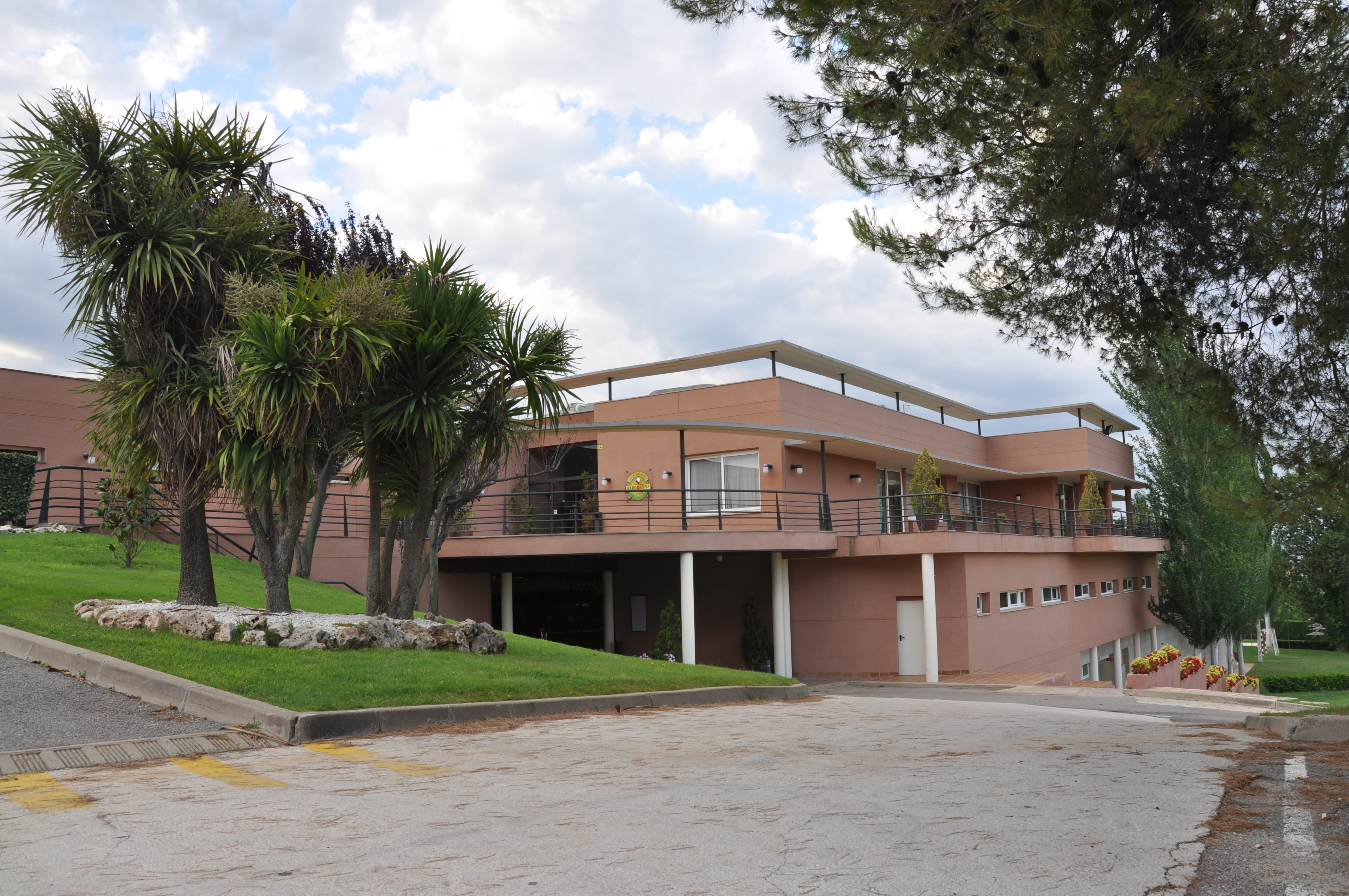 The entrance of the clubhouse of golfclub "Club de Golf de Barcelona", formerly known as "Club de Golf de Masia Bach"